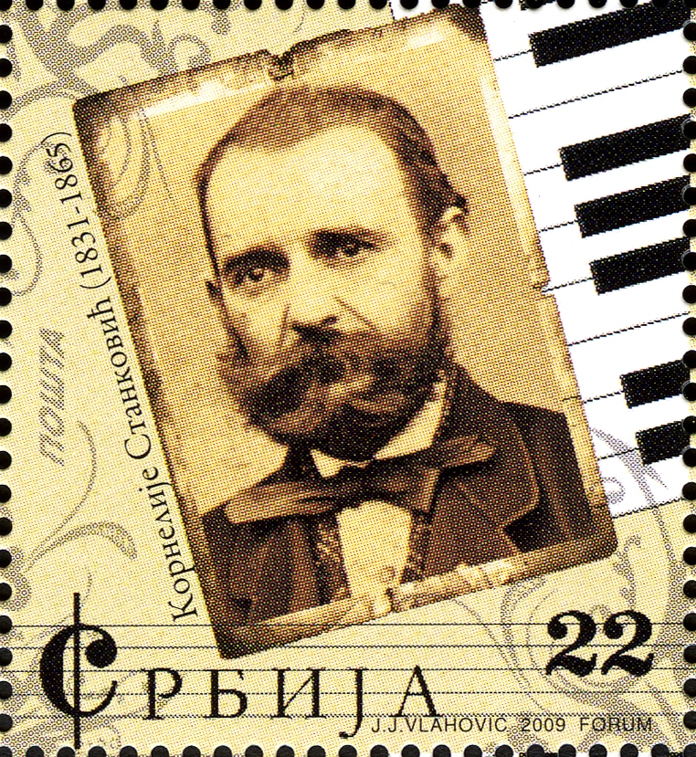 Great Personalities of Serbian Classical Music - Kornelije Stankovic (1831-1865)